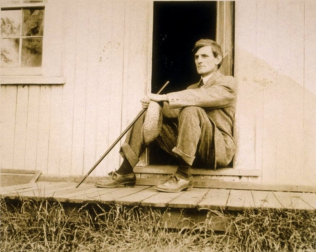 Herman Whitaker (1867–1919), English-born American author